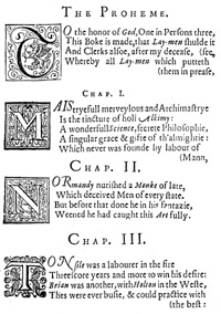 Theatrum chemicum Britannicum - Ordinall of Alchemy - initials of Thomas Norton in the text